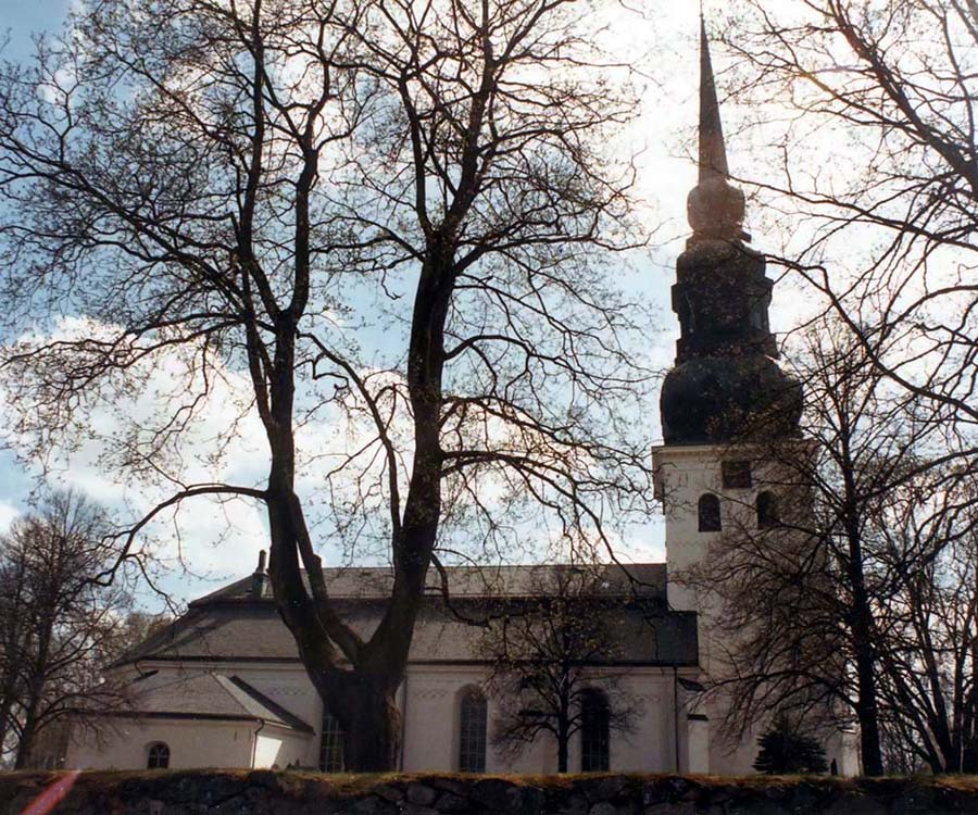 Stora Tuna Church, as released by image creator RistessonPlace: Borlänge, Sweden